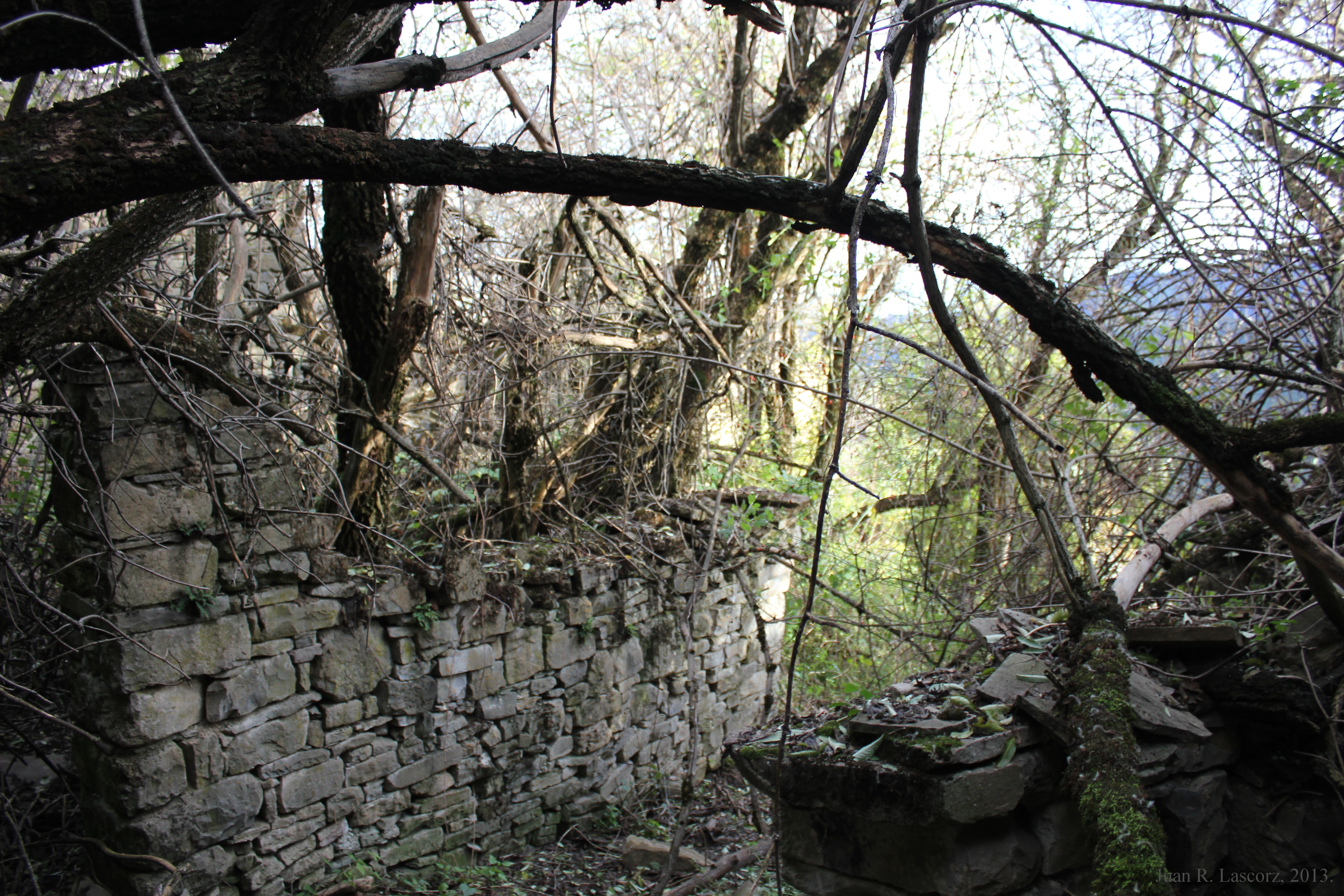 State of town of Berroy in november 2013.